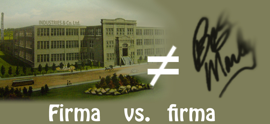 False friend: the German word Firma and the Spanish word firma. Whereas the German word means firm or company, the Spanish word means signature or autograph in most of the cases.Nevertheless, this is a special case since the Spanish word "firma" can also mean firm or company – the other way round though, it doesn't work: The German word doesn't mean signature at all.